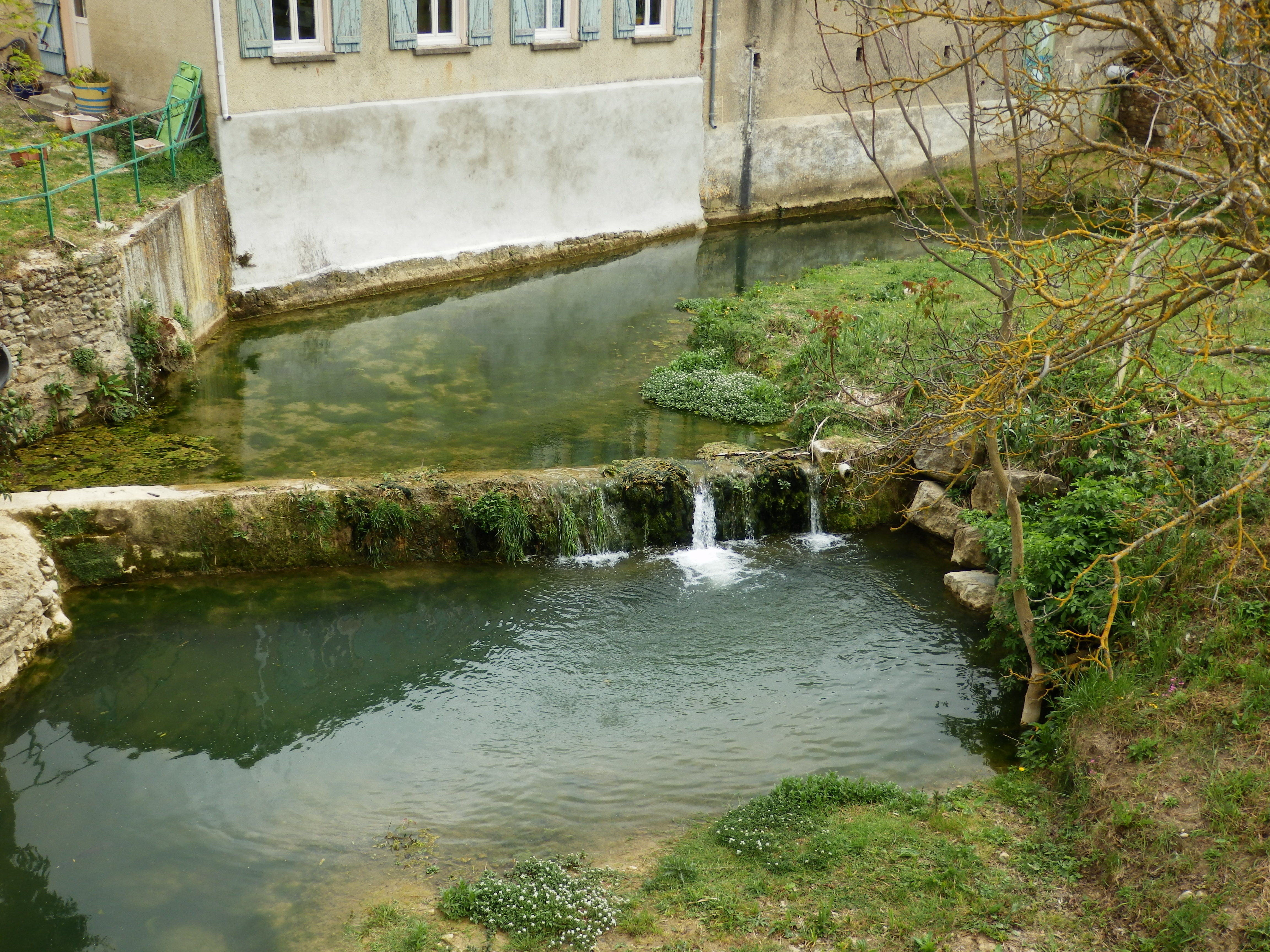 Cougaing river in La Digne-d'Amont, Aude, France